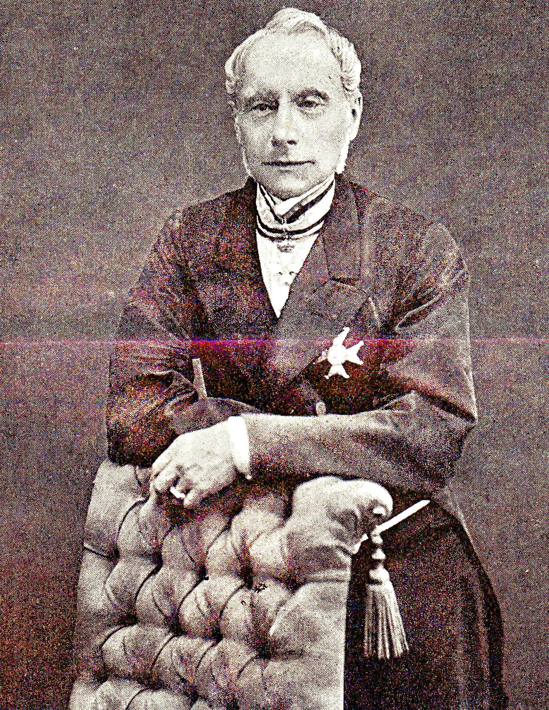 Jonkheer Mr. PJ Elout van Zoeterwoude